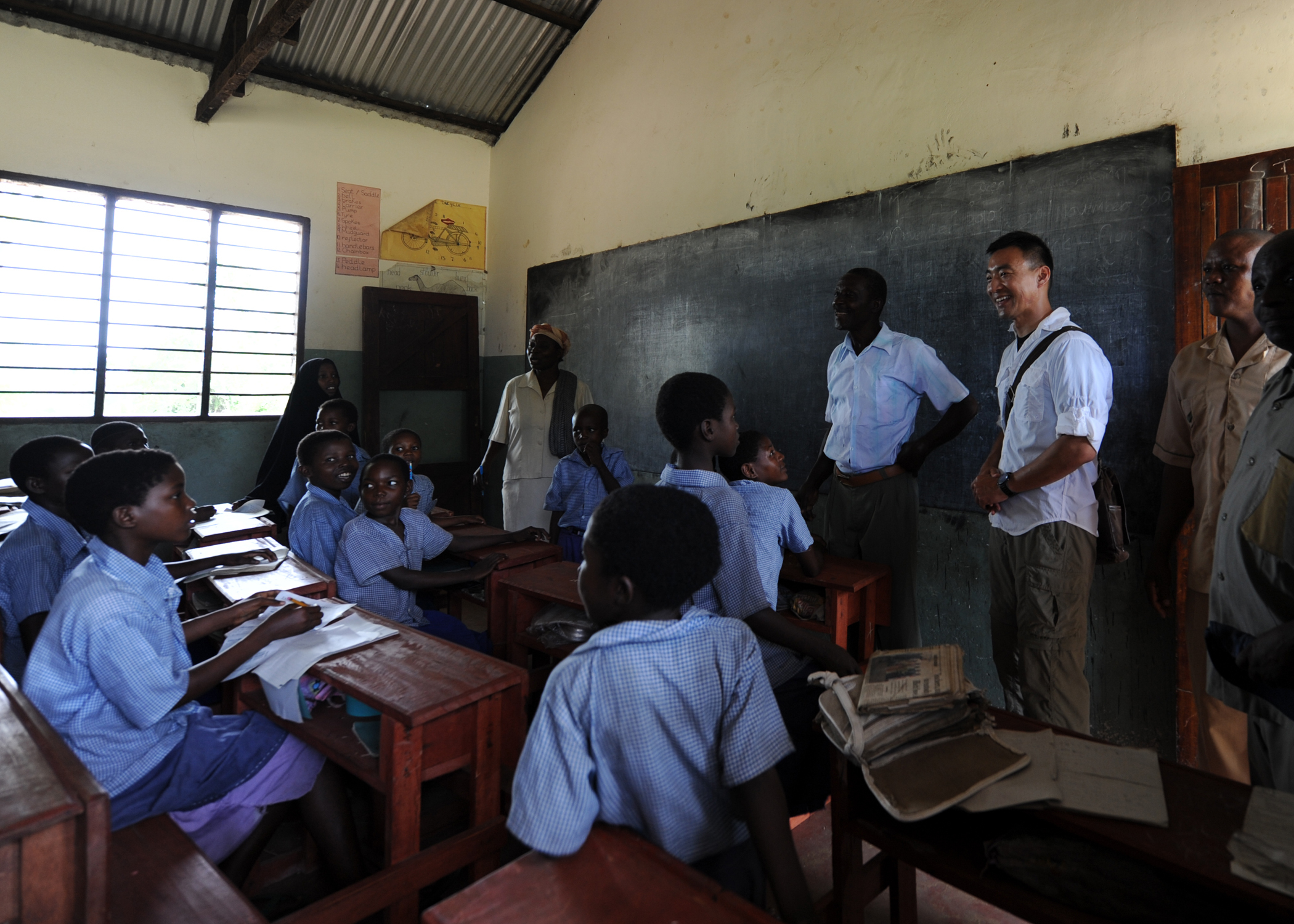 U.S. Navy Lt. Perry Choi, third from right, team leader for Maritime Civil Affairs Team 205, speaks with children at Ziwani Primary School before a dedication ceremony for 200 new desks, a project that was a combined effort between MCAT-205 and the local community. The Little Creek, Va., based MCAT-205 is deployed to Kenya supporting Combined Joint Task Force - Horn of Africa.